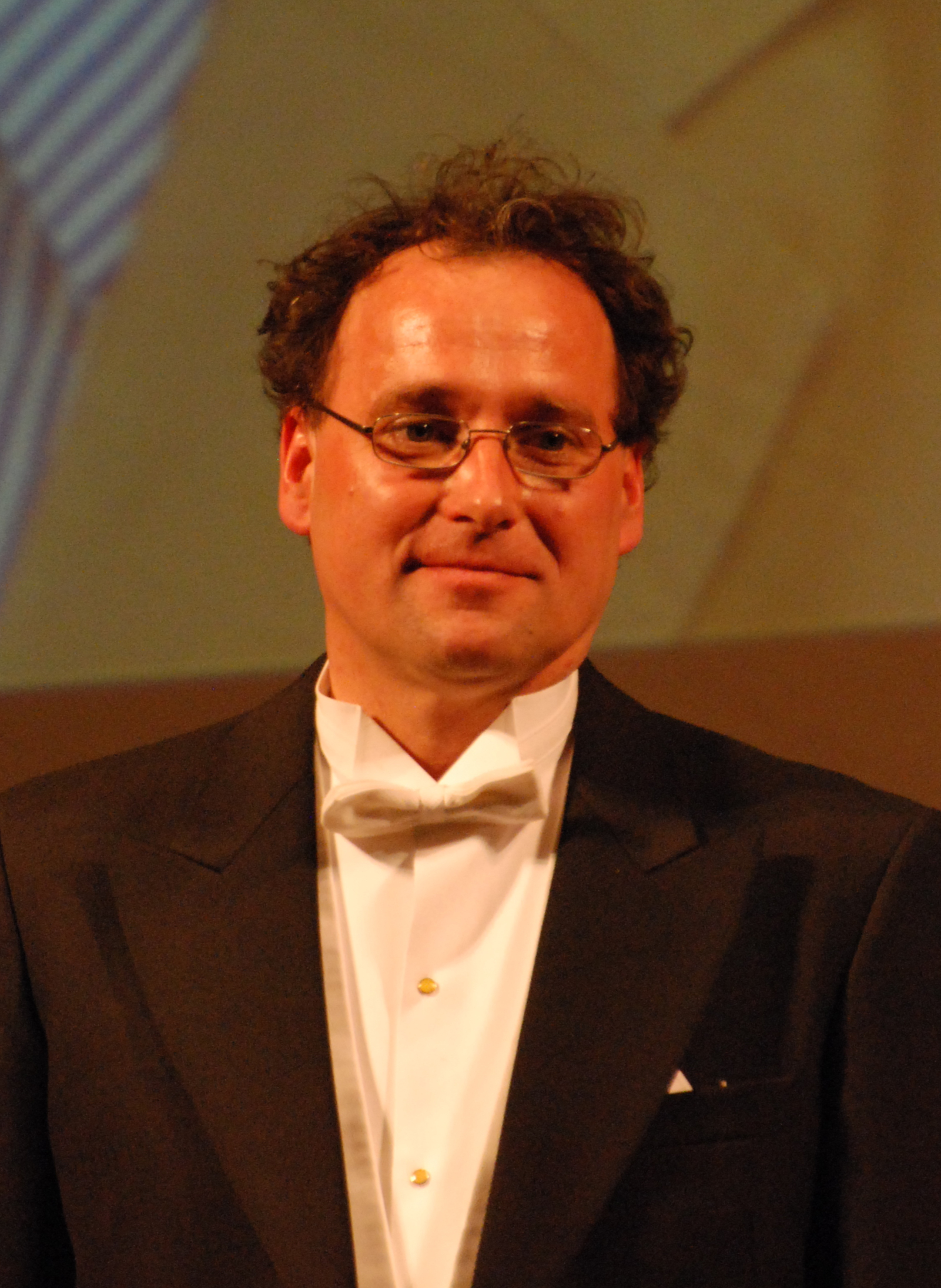 Ceremonial Meeting of the Royal Swedish Academy of Sciences: award ceremony of the Göran Gustafsson prize 2010: Bernhard Mehlig